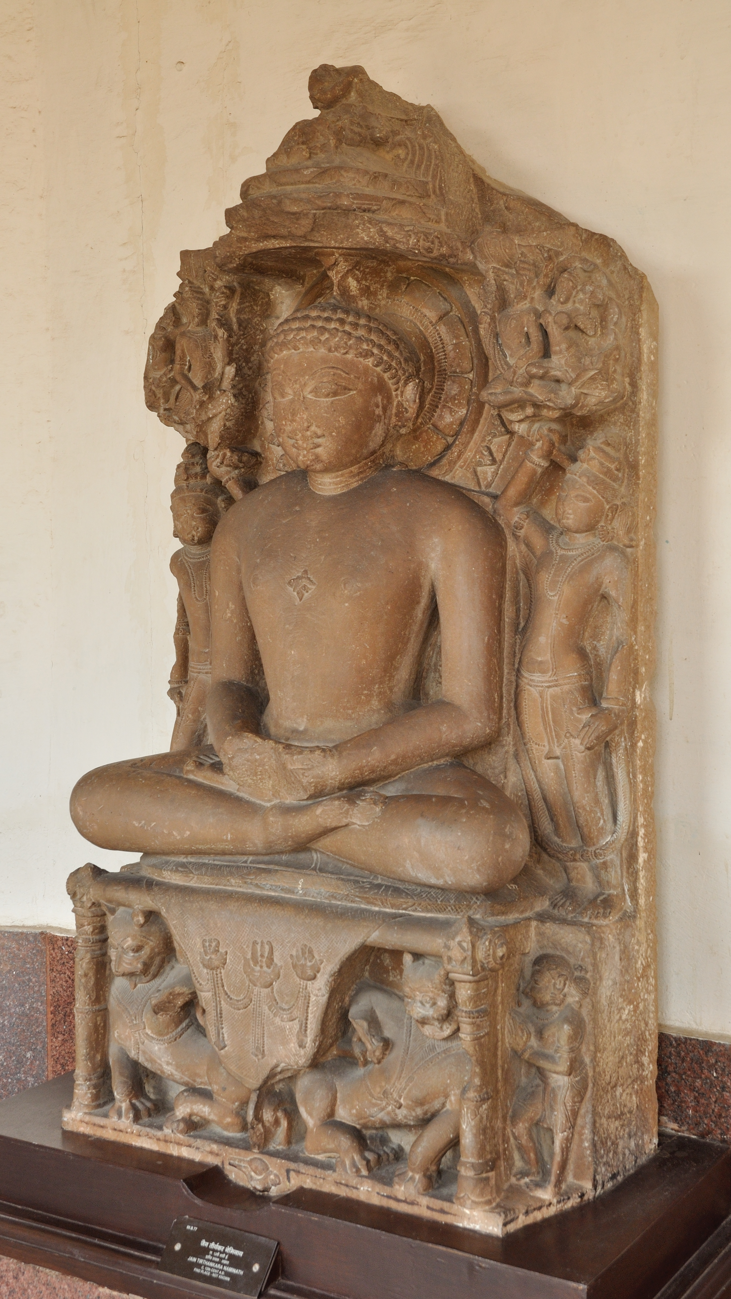 This artefact resides at the Government Museum, (hi: Rashtriya Sangrahalaya) formerly The Curzon Museum of Archaeology, Museum Road or Murari Lal Rajpal road, Dampier Nagar, Mathura, Uttar Pradesh, India. This museum is administrating by the State Government of Uttar Pradesh of India.